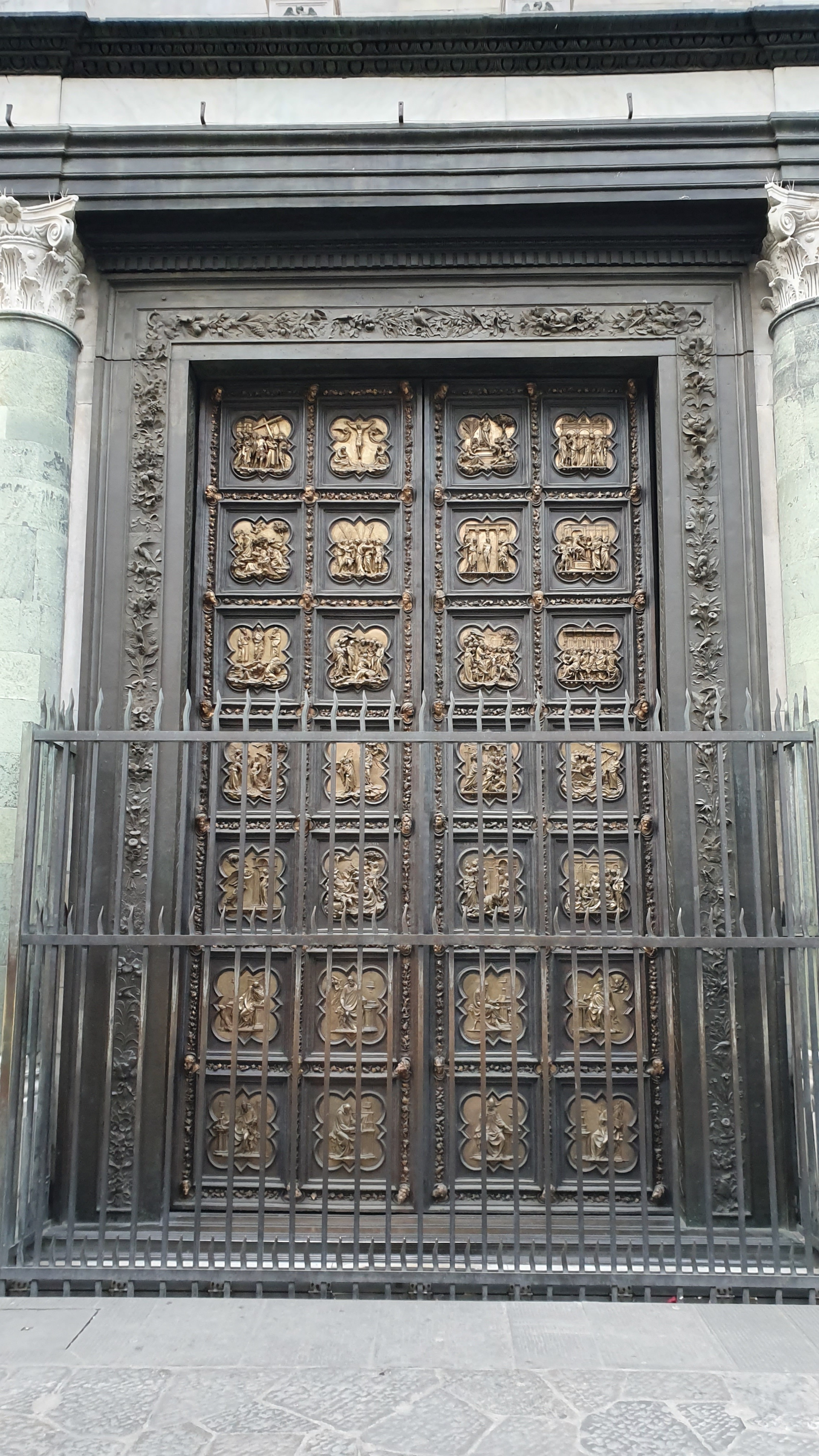 North Doors of the Battisteria di San Giovanni, Florence